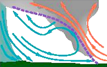 Cold air descending from a cumulonimbus in blue meet the warm and moist environmental air. Since the cold pool is denser, the moist air is forced upward and the humidity condense into a shelf cloud, a variety of arcus cloud.